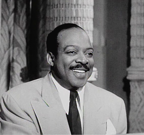 This is a screen capture of Count Basie at the piano from the movie "Rhythm and Blues Revue".